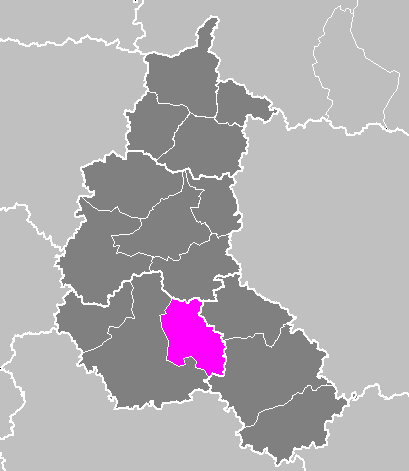 Maps of arrondissements and cantons of France: Arrondissement de Bar-sur-Aube.PNG